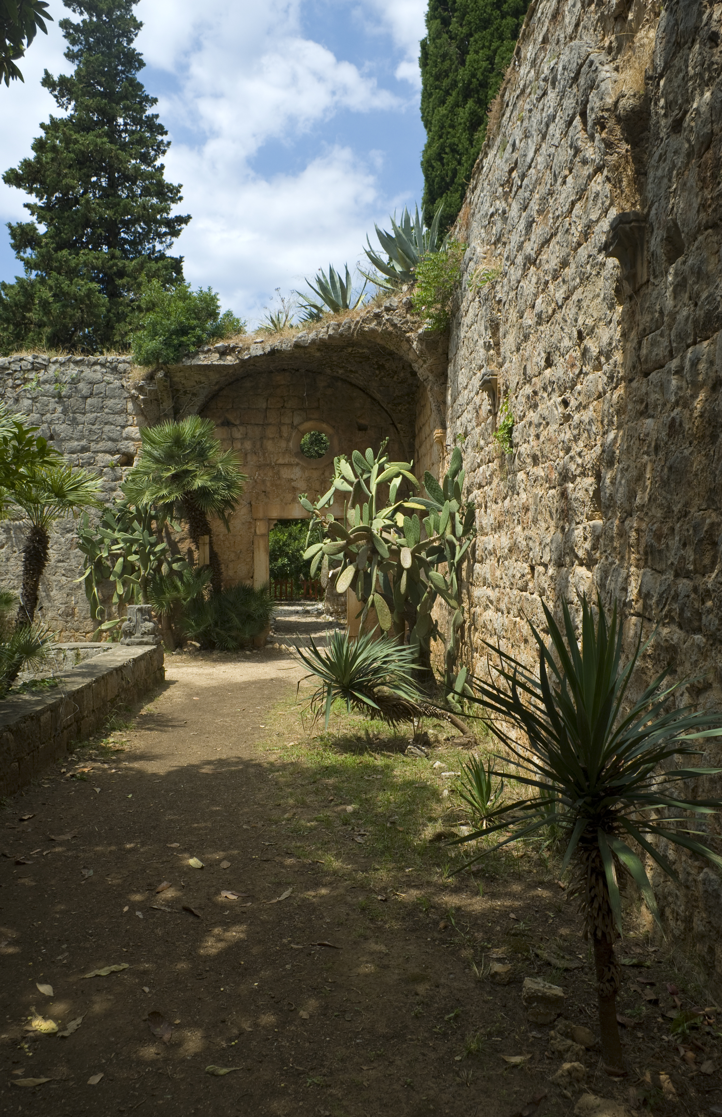 Croatia, Lokrum Island, Benedictine monastery